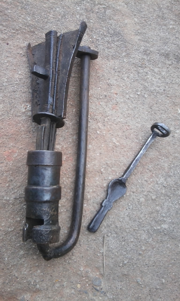 A Medieval padlock used in Nepal with its key.